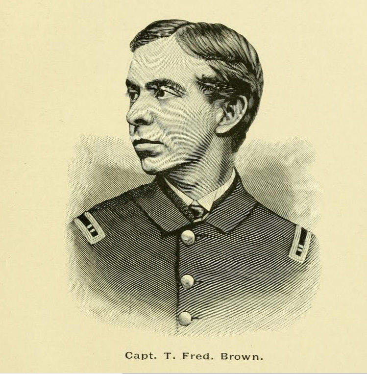 Captain Thomas Frederick Brown (Battery B, 1st Rhode Island Light Artillery)